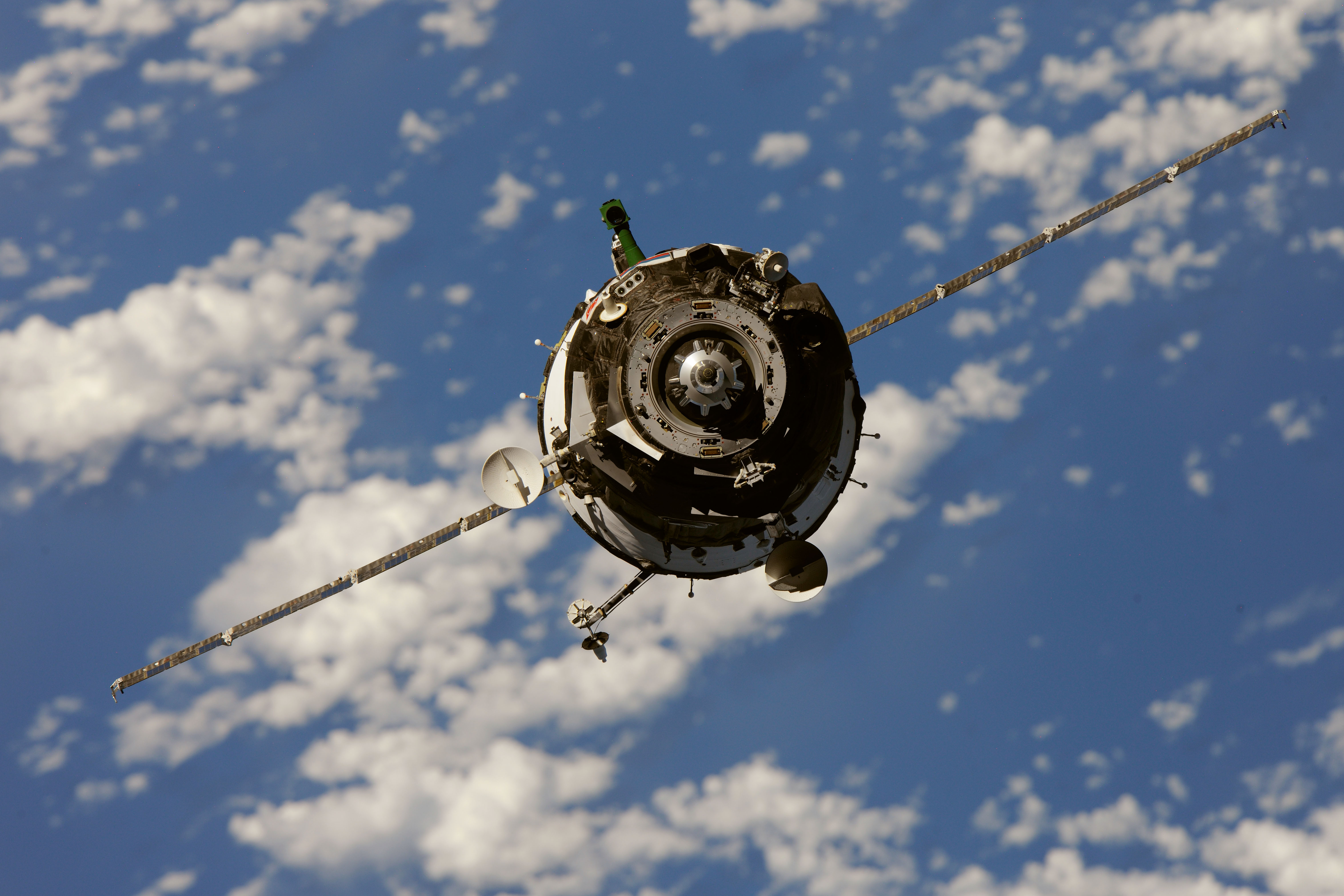 The Soyuz TMA-01M spacecraft approaches the International Space Station, carrying Russian cosmonaut Alexander Kaleri, Soyuz commander and Expedition 25 flight engineer; along with NASA astronaut Scott Kelly and Russian cosmonaut Oleg Skripochka, both flight engineers. Docking of the two spacecraft occurred at 8:01 p.m. (EDT) on Oct. 9, 2010.